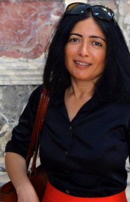 Gujarati language poet Manisha Joshi at Colosseum, Rome, Italy, June 2015